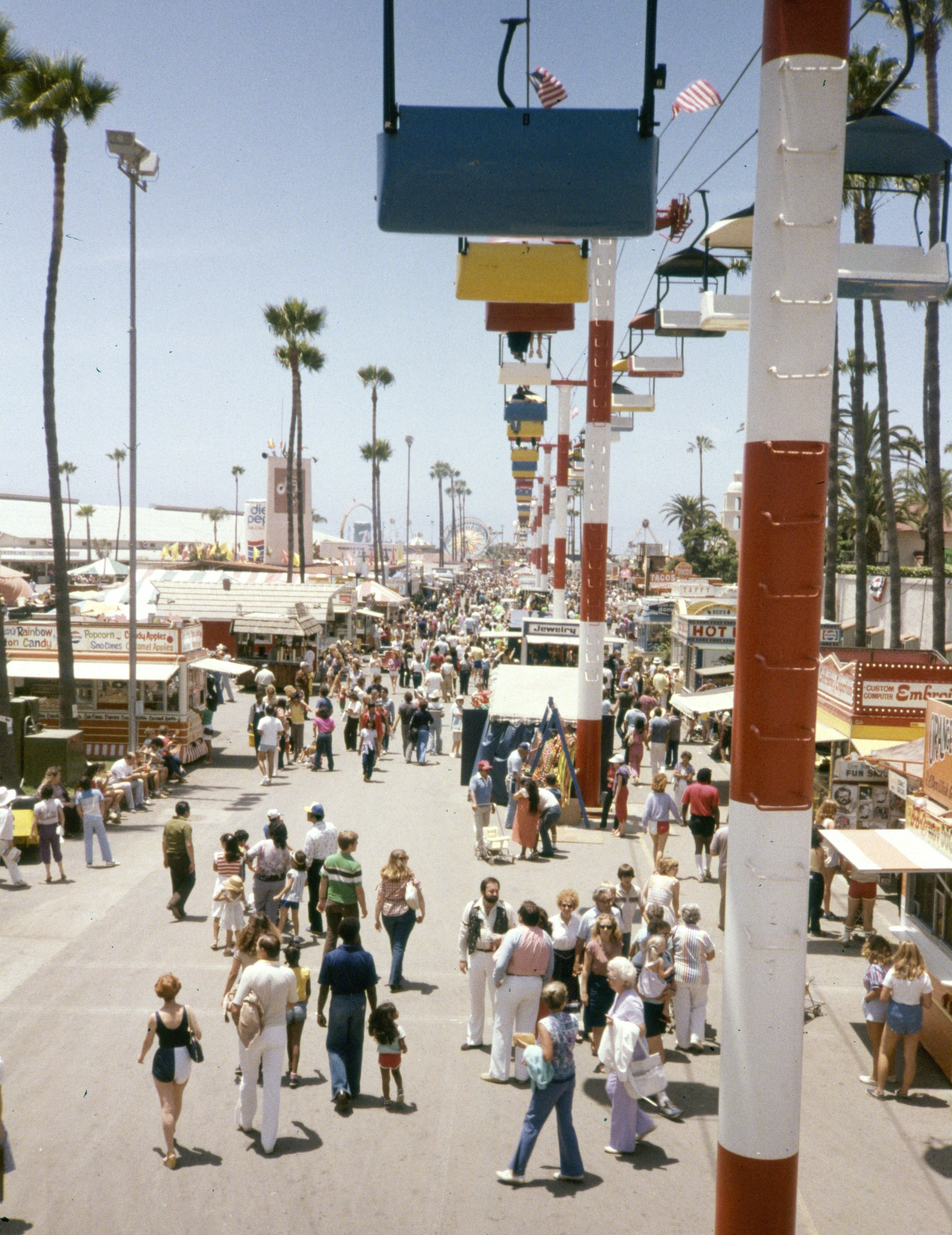 Southern California Exposition (San Diego County Fair), July 1982, Del Mar, California